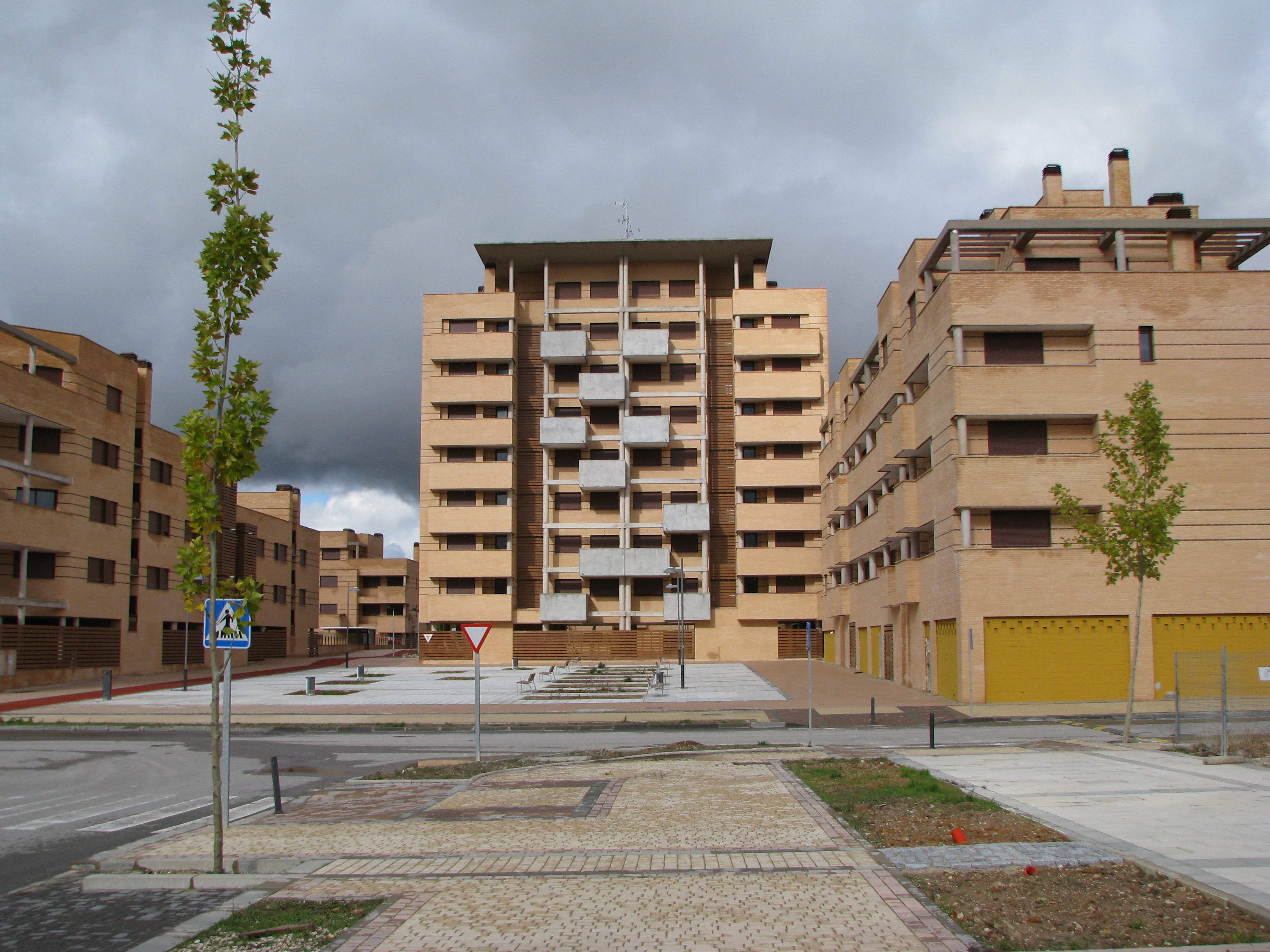 Encina Square in Ciudad Valdeluz, Guadalajara, Spain.